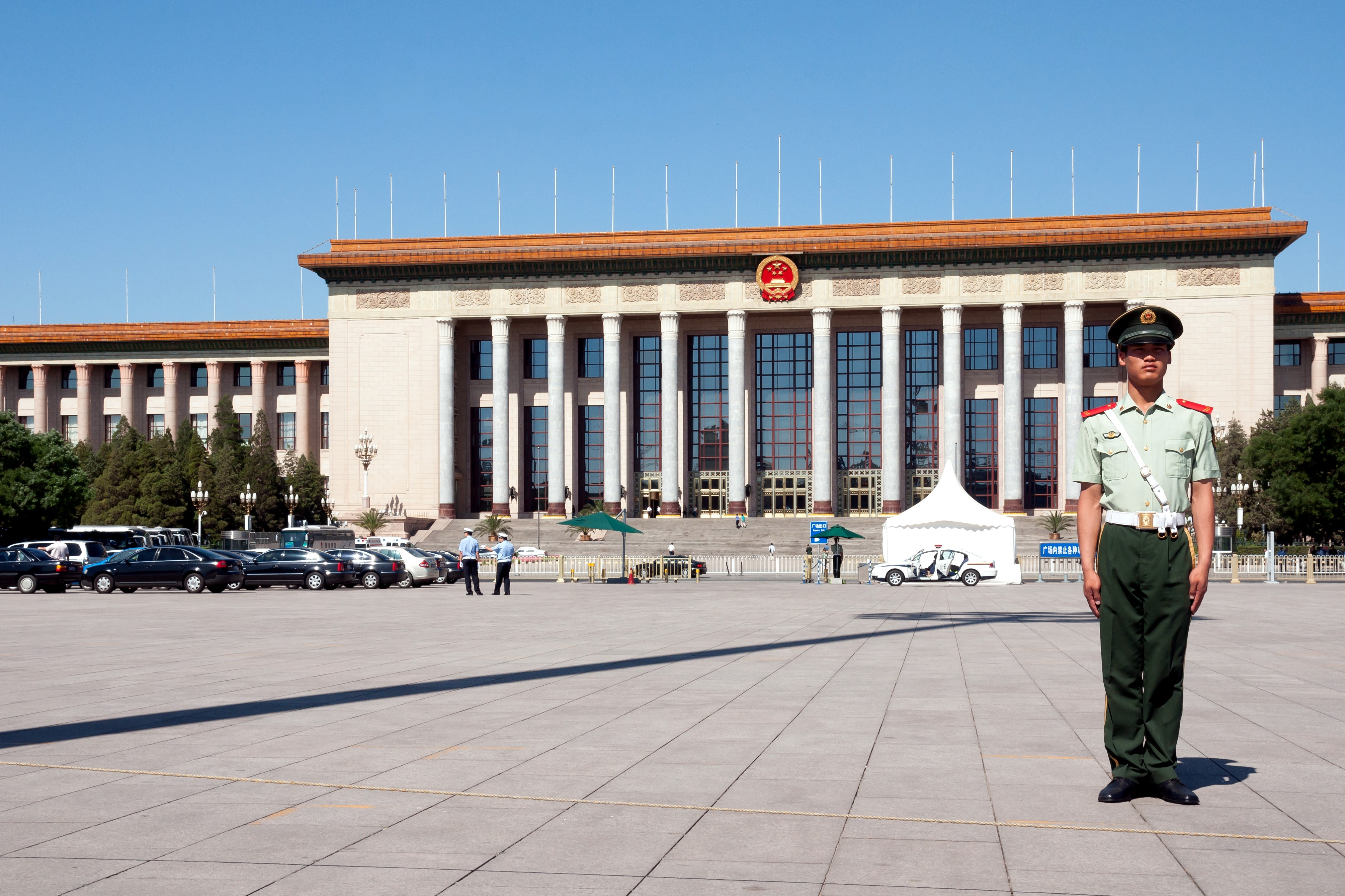 Beijing, China: A member of People's Armed Police standing guard in front of the Great Hall of the People at Tianamen Square